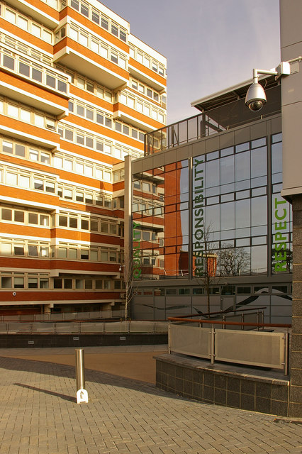 Orpington College - old and new On the left is the original 1970s tower, on the right part of the new building opened in 2010.